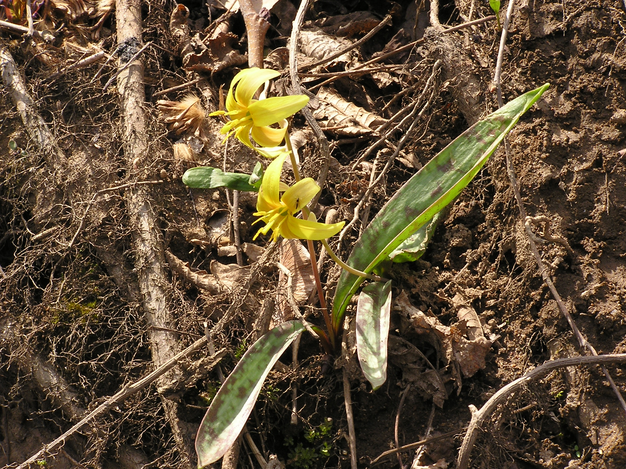 Erythronium americanum